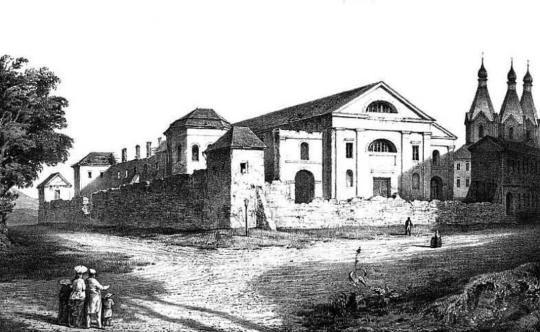 Drawing of the walls (Moory) and Jesuits Collegium in Vinnitsa, Ukraine